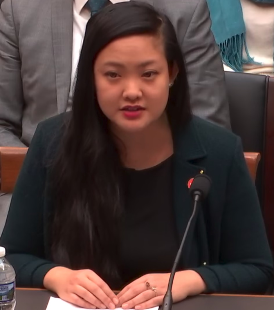 Amanda Nguyen, CEO and Founder of RISE, testifies before the United States House Judiciary Committee about the Implementation of the "Survivors Bill of Rights Act".